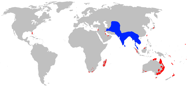 Distribution of the Common Myna Acridotheres tristis: Blue: Native species Red: Invasive alien species